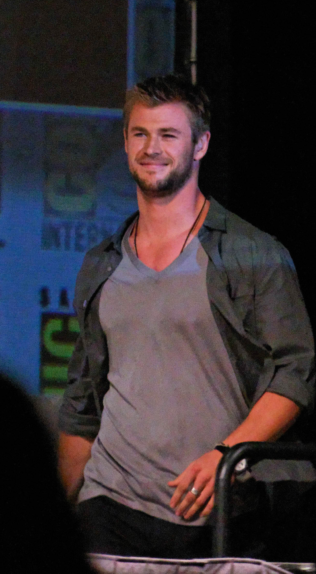 Chris Hemsworth at the 2010 San Diego Comic-Con International.